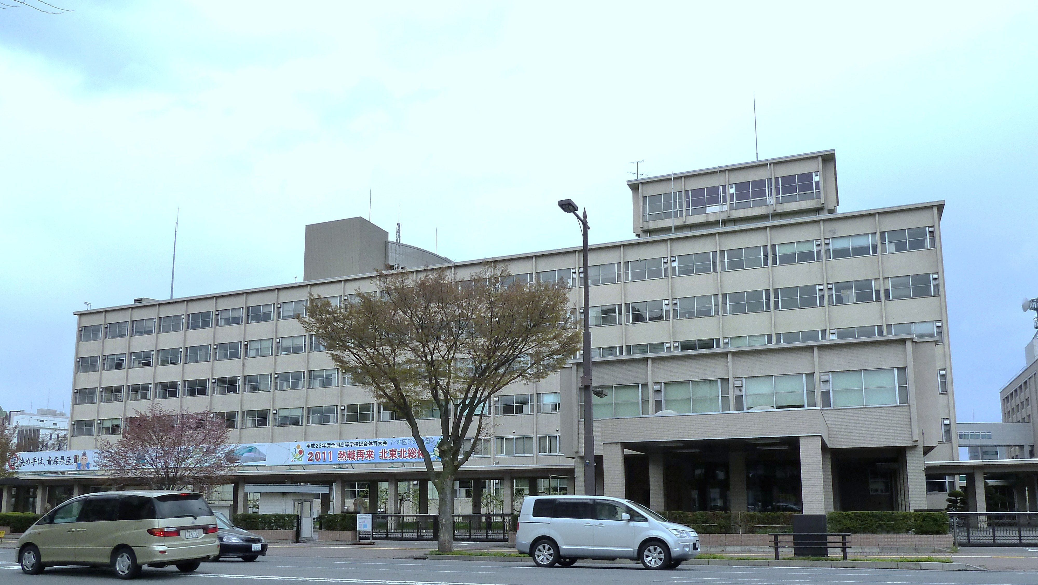 Building of Aomori Prefecture Office